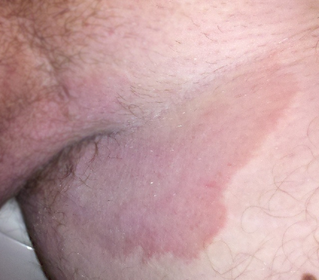 Tinea cruris ("Jock itch") on the inner thigh of a man.